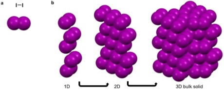 This image shows the intermolecular interactions and packing in three dimensions of iodine as a solid.